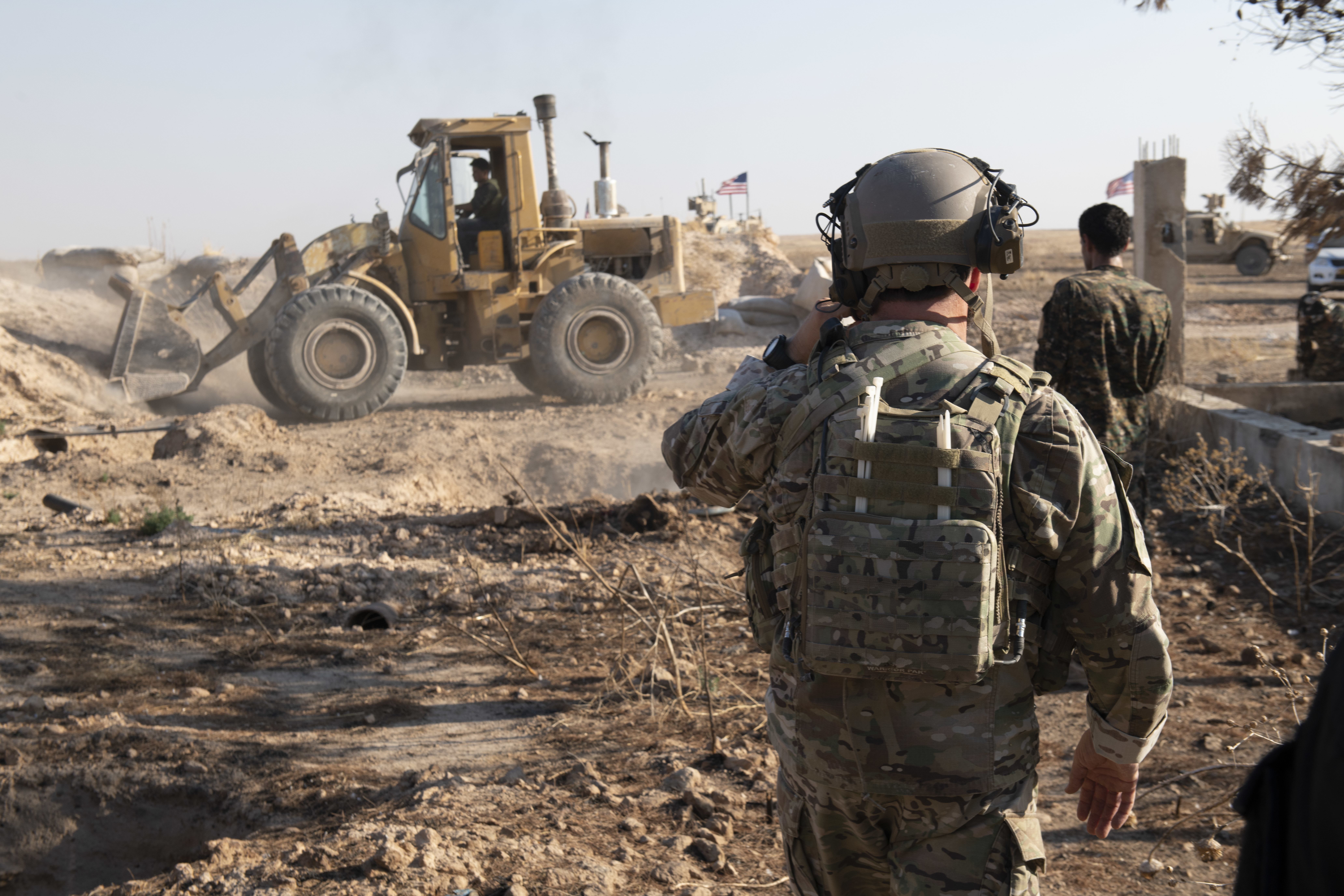 A U.S. service member watches as Syrian Democratic Forces remove military fortifications during the implementation of the security mechanism along the Turkey-Syria border in northeast Syria, Aug. 22, 2019. The security mechanism is intended to secure and stabilize the border in a sustainable manner, ensure campaign continuity in the Global Coalition's efforts to defeat ISIS, and limit any uncoordinated military operations. The security mechanism will be executed in designated phases and in a coordinated and combined manner to ensure security and stability along the Turkey-Syria border.